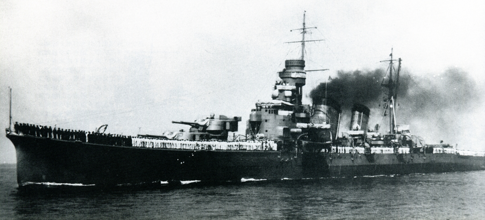 Japanese cruiser Kinugasa commissioning at Kobe, September 30, 1927.